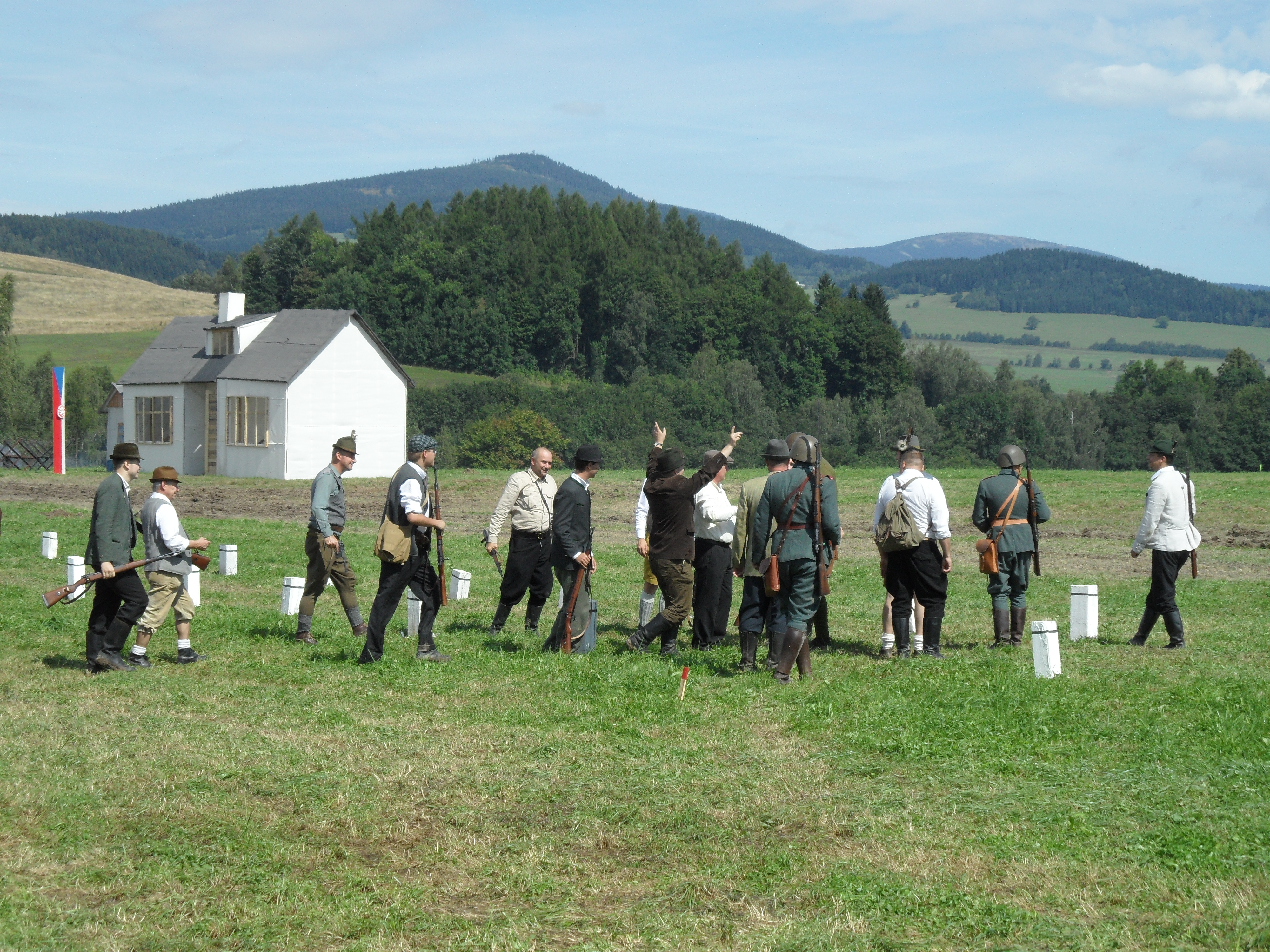 Akce Cihelna 2014 F06. Main Historical Presentation: Mobilisation 1938 (Saturday). Alternative Scenario: Fighting for the Borderline, Králíky, Ústí nad Orlicí District, the Czech Republic.